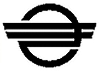 Kyonan Chiba chapter